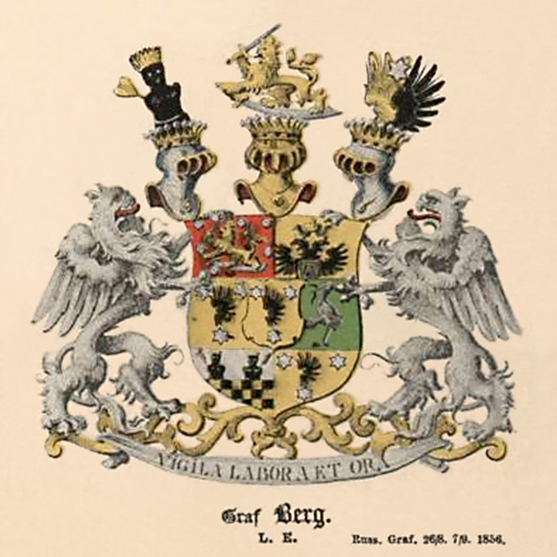 Graf von Berg CoA